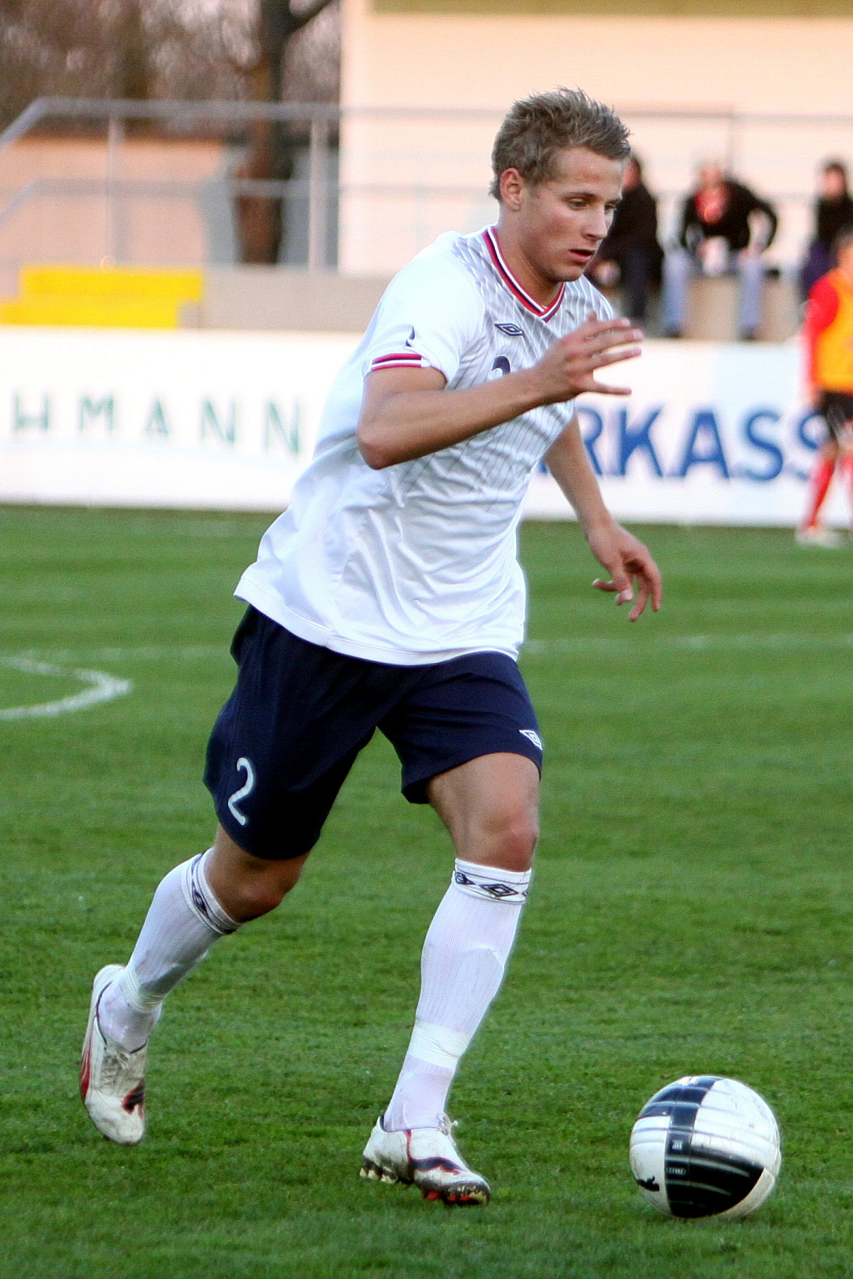 Vegar Hedenstad (Stabæk Fotball) in the Norway national under-21 football team, 2011-03-29